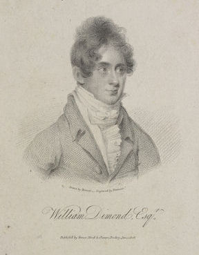 The British playwright William Dimond (1781-c1837) drawn by Bennett (1808)